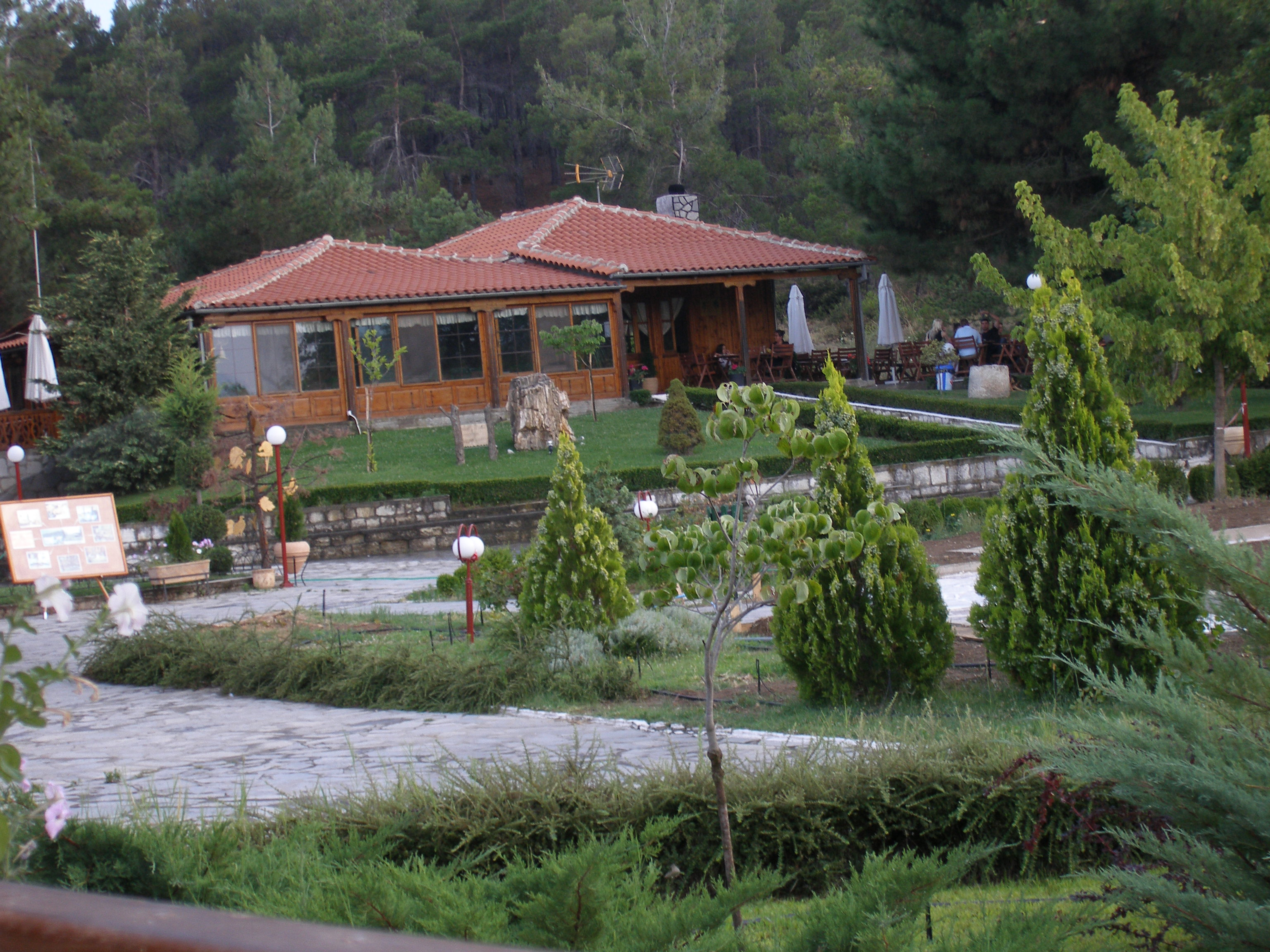 This is a photography of Natura 2000 protected area with ID GR1110002